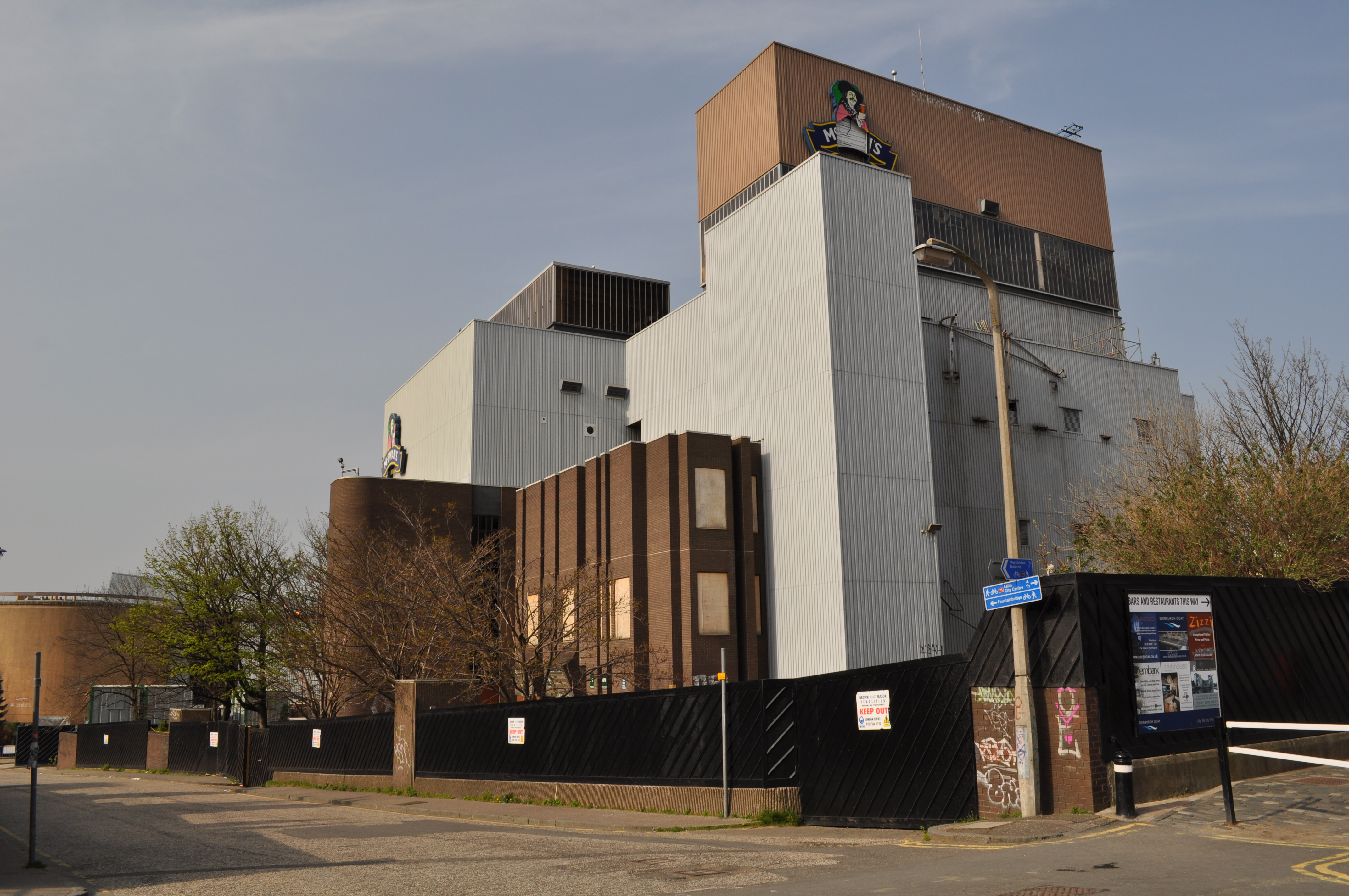 Scottish & Newcastle Bottling Plant, Fountainbridge, Edinburgh: One of the few buildings of the Fountain Brewery yet to be demolished. Bearing the McEwan's logo.